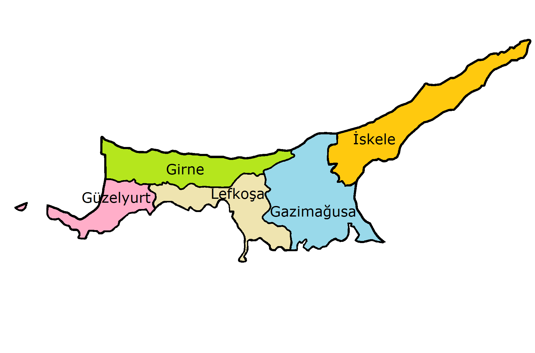 District map of Northern Cyprus